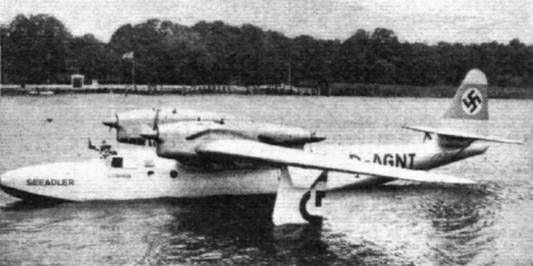 The Dornier Do 26A (V-1, D-AGNT "Seeadler") flying boat.